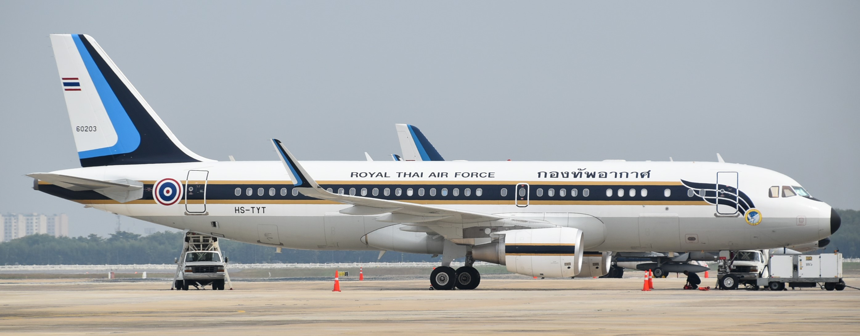 Airbus A320(SL) of the Royal Thai Air Force at Bangkok-DMK, Thailand, 13/01/18.